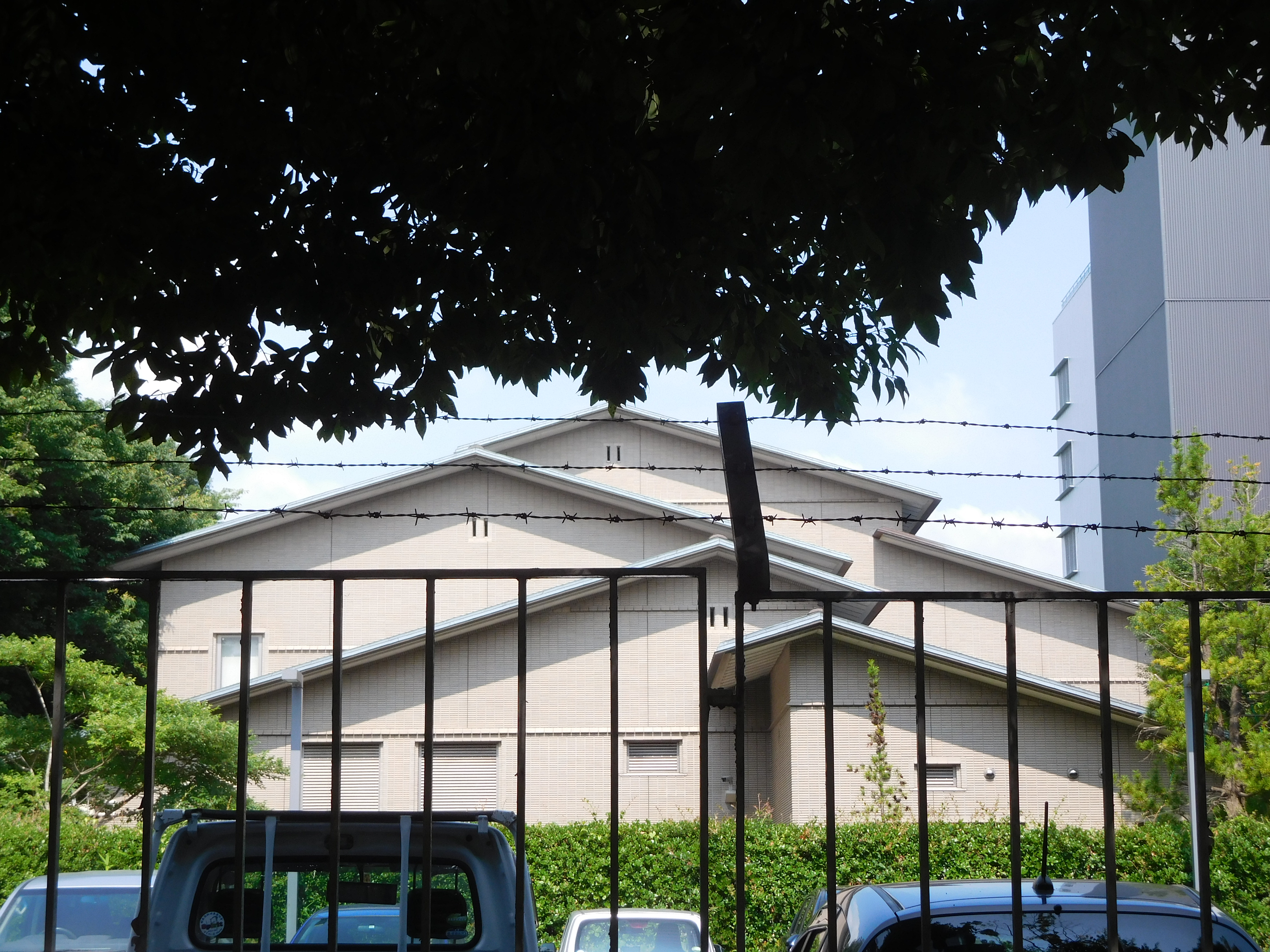 This is Showa Memorial Tsukuba Research Museum in Tsukuba Botanical Garden (TBG), Tsukuba city, Ibaraki, Japan. This museum doesn't allow to enter ordinary people. I took this photo from outside of TBG site.